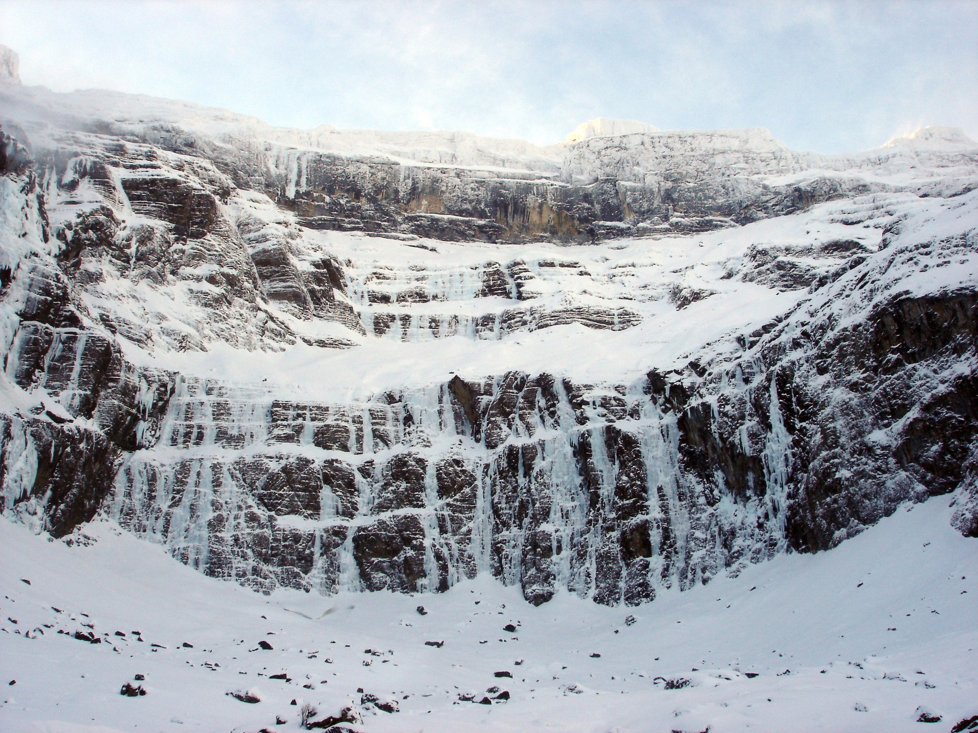 Cirque de Gavarnie in winter